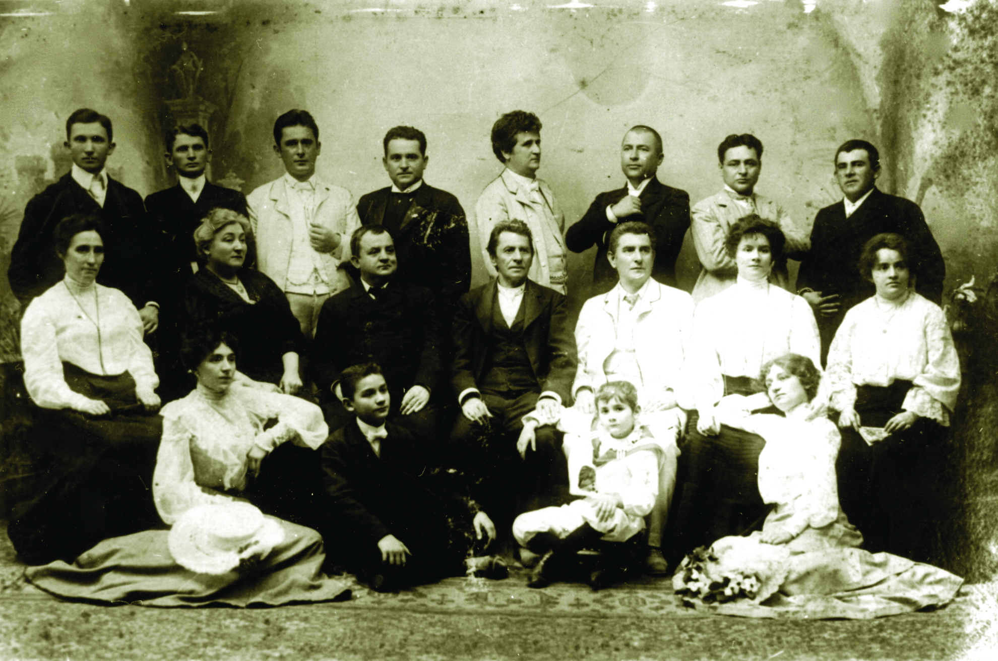 Part of the troupe of Serbian National Theatre, 1905. Srpski (latinica): Deo trupe Srpskog narodnog pozorišta, 1905. Српски (ћирилица): Део трупе Српског народног позоришта, 1905